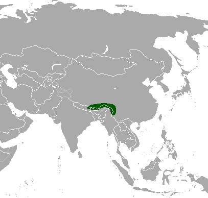 Range map of the black musk deer (Moschus fuscus) according to: C. P. Groves (2011). Family Moschidae (Musk-Deer). (S. 347). In: Wilson, D. E., Mittermeier, R. A., (Hrsg.). Handbook of the Mammals of the World. Volume 2: Hooved Mammals. Lynx Edicions, 2009. ISBN 978-84-96553-77-4 Wang, Y. & Harris, R.B. 2008. Moschus fuscus. In: IUCN 2011. IUCN Red List of Threatened Species. Version 2011.2. . Downloaded on 17 June 2012.